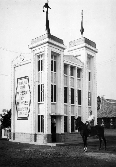 Man on a horse in front of the stand of Aneta at the Pasar Gambir in Batavia